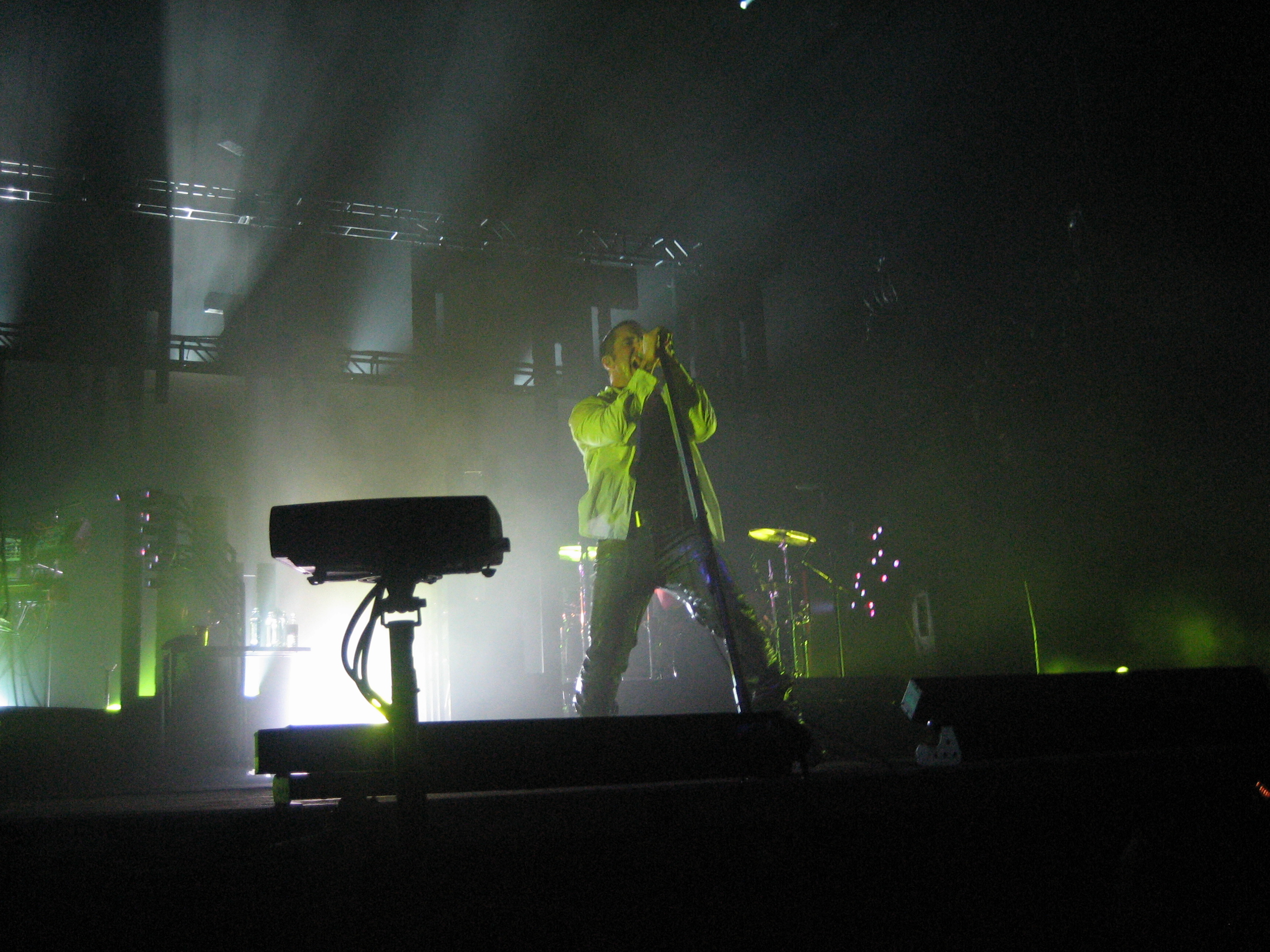 Nine Inch Nails: Live With Teeth in Moline IL